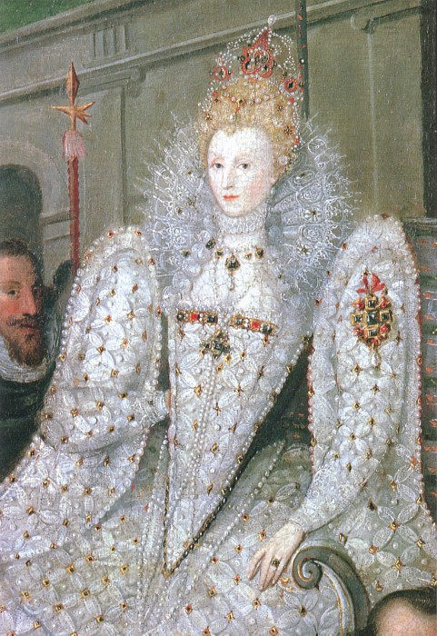 Procession portrait of Elizabeth I of England (detail)